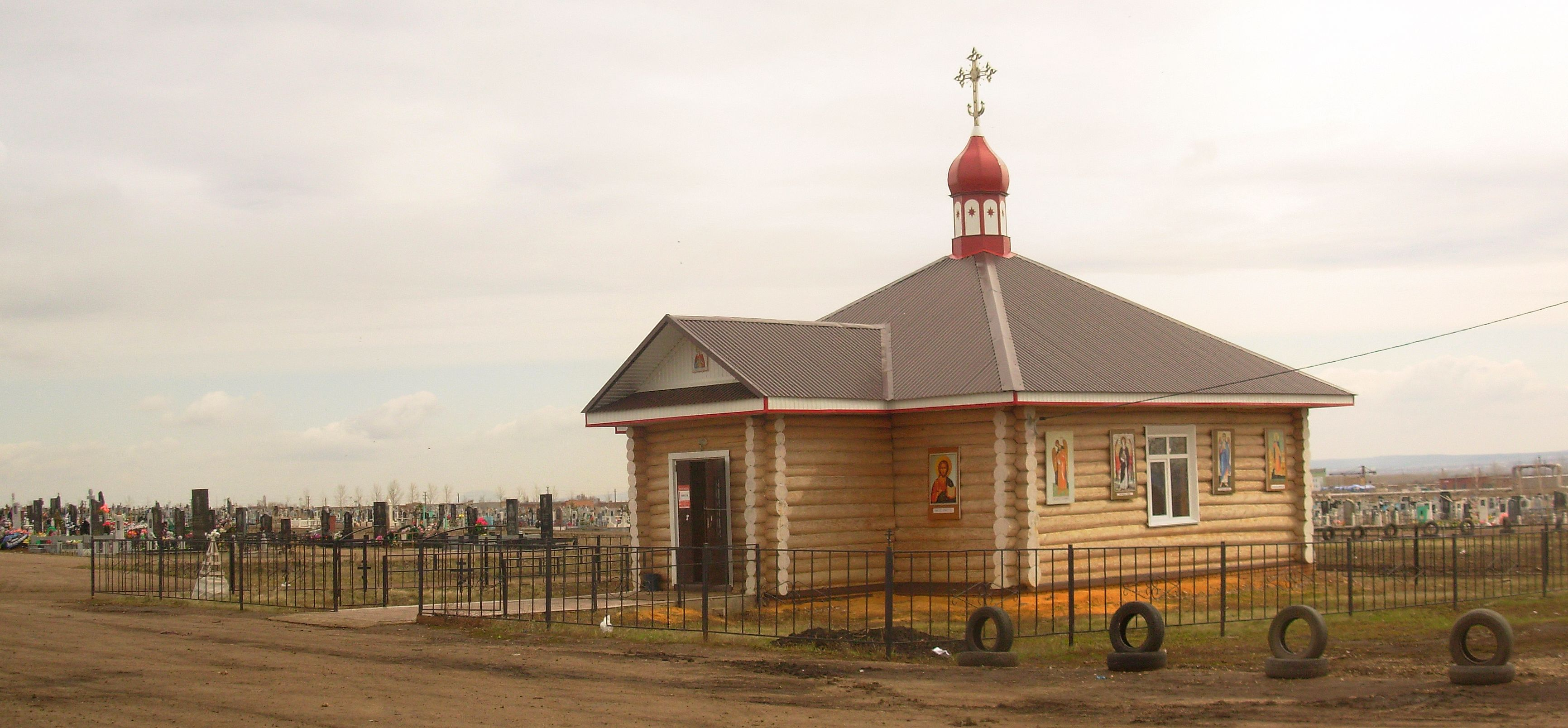 храм на новом кладбище в Салавате